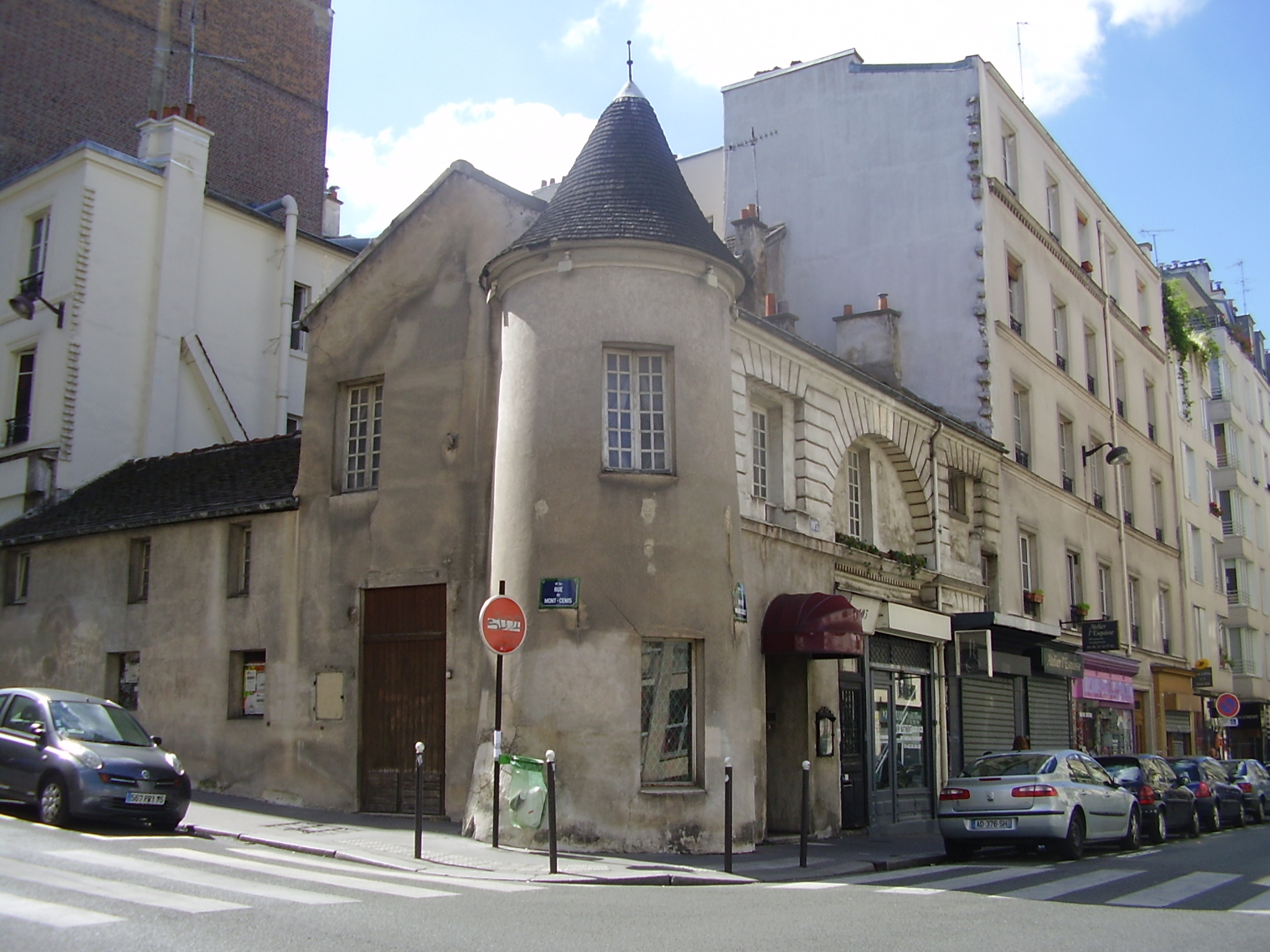 Remains of the Porcelain manufacturing company of Clignancourt (Paris, 18th arrondissement) which was under the protection of the count of Provence (Louis XVI's brother ; later king under the name of Louis XVIII). End of the XVIIIth c.